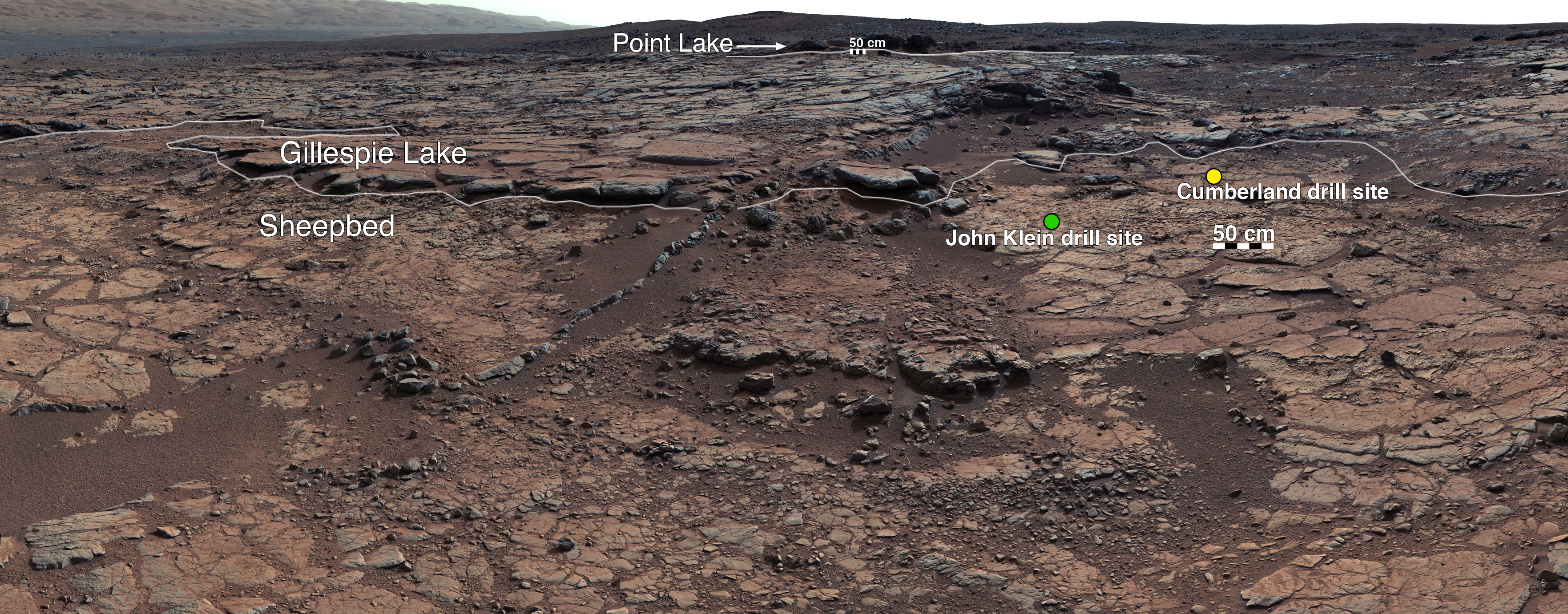 PIA17595: View of Yellowknife Bay Formation, with Drilling Sites This mosaic of images from Curiosity's Mast Camera (Mastcam) shows geological members of the Yellowknife Bay formation, and the sites where Curiosity drilled into the lowest-lying member, called Sheepbed, at targets "John Klein" and "Cumberland." The scene has the Sheepbed mudstone in the foreground and rises up through Gillespie Lake member to the Point Lake outcrop. These rocks record superimposed ancient lake and stream deposits that offered past environmental conditions favorable for microbial life. Rocks here were exposed about 70 million years ago by removal of overlying layers due to erosion by the wind. The 50-centimeter scale bars at different locations in the image are about 20 inches long. The lower scale bar is about 26 feet (8 meters) away from where Curiosity was positioned when the view was recorded. The upper scale bar is about 98 feet (30 meters) from the rover's location. The scene is a portion of a 111-image mosaic acquired during the 137th Martian day, or sol, of Curiosity's work on Mars (Dec. 24, 2012). The foothills of Mount Sharp are visible in the distance, upper left, southwest of camera position. Malin Space Science Systems, San Diego, built and operates Mastcam. NASA's Jet Propulsion Laboratory manages the Mars Science Laboratory mission and the mission's Curiosity rover for NASA's Science Mission Directorate in Washington. The rover was designed, developed and assembled at JPL, a division of the California Institute of Technology in Pasadena. For more about NASA's Curiosity mission, visit and